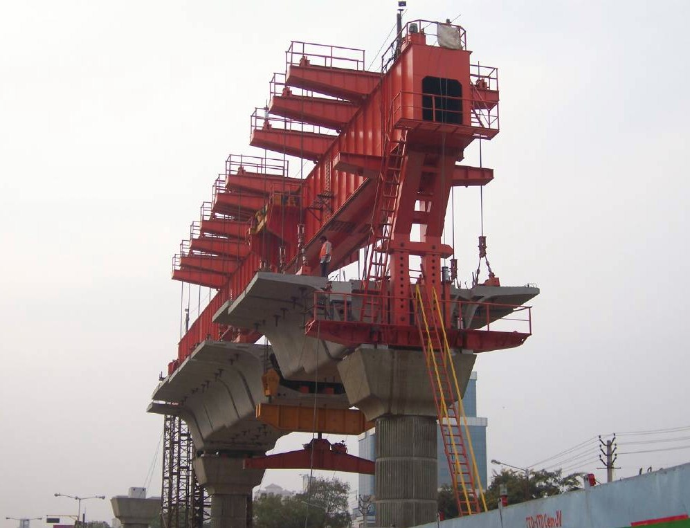 Segments for the extension of Line-2 of the Delhi Metro being launched near Gurgaon in 2007.